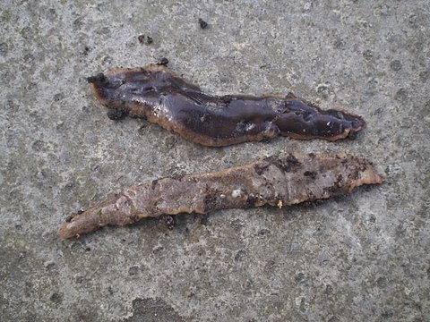 New Zealand flatworm (Arthurdendyus triangulatus), dorsal view (top) and ventral view (bottom)